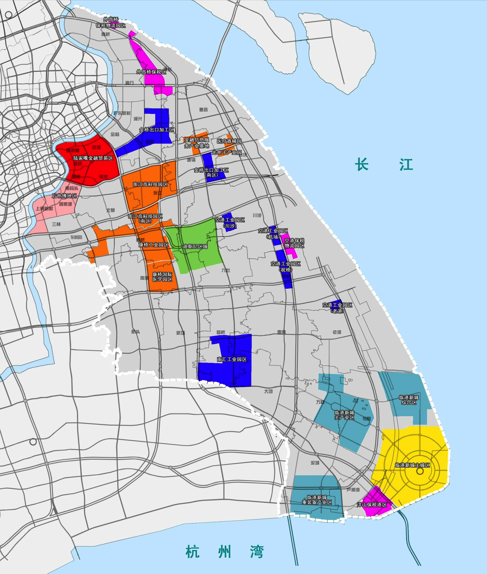 A Chinese-language map of Pudong New Area (gray) with various neighborhoods and free trade zones in different colors: 2010 Expo Site (pink), Lujiazui (crimson), Jinqiao and Chuansha and Nanhui and Laogang (blue), Zhangjiang Hi-Tech Park (orange), Waigaoqiao and Pudong's area of Yangshan (hot pink), &c. Includes the recent Shanghai Yangtze Tunnel and Bridge to Chongming County, but Pudong's own Jiuduansha Shoals omitted. Includes proposed infrastructures projects which have not been undertaken, such as the bridge connecting Changxing and Hengsha Islands.